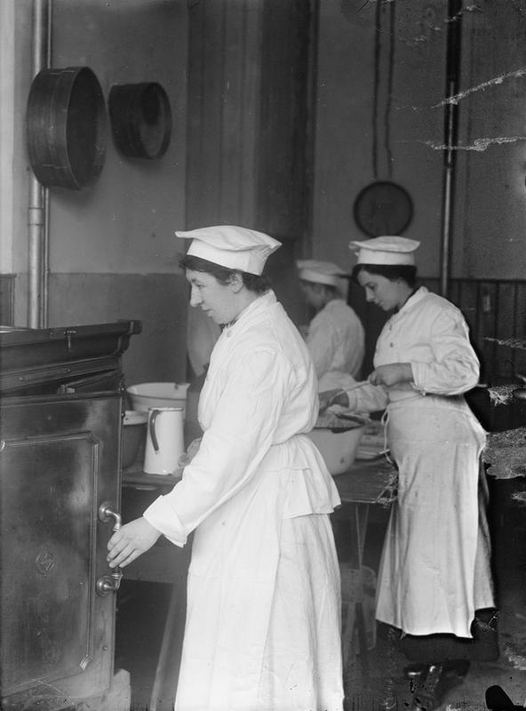 Ministry of Information First World War Official Collection Cooks preparing a meal in a National Kitchen.